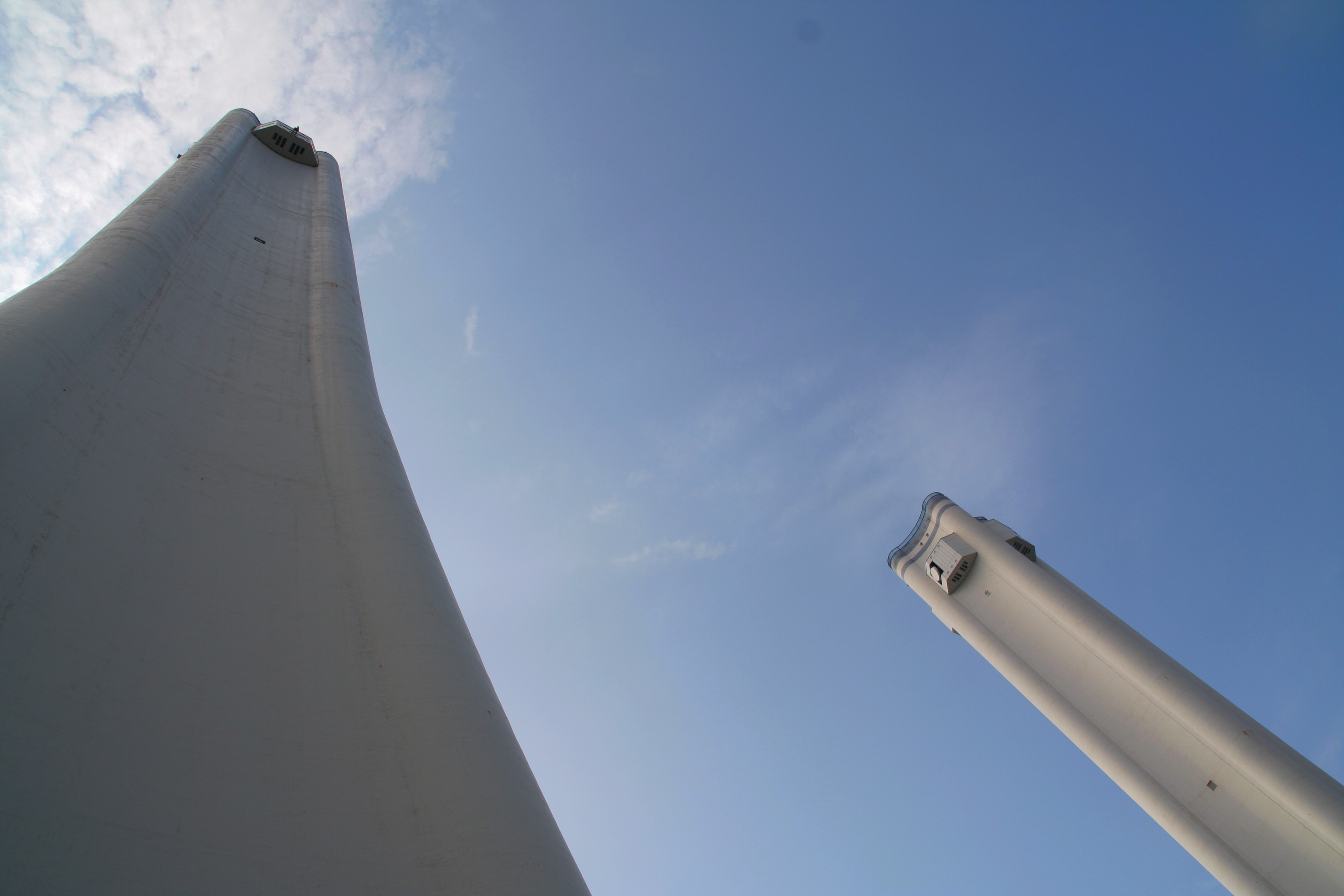 "Twin Tower" ; Air stack of the 7th and 8th power generators Yokohama Thermal Power Station, Tokyo Electric Power Company, Inc. Yokohama, Japan